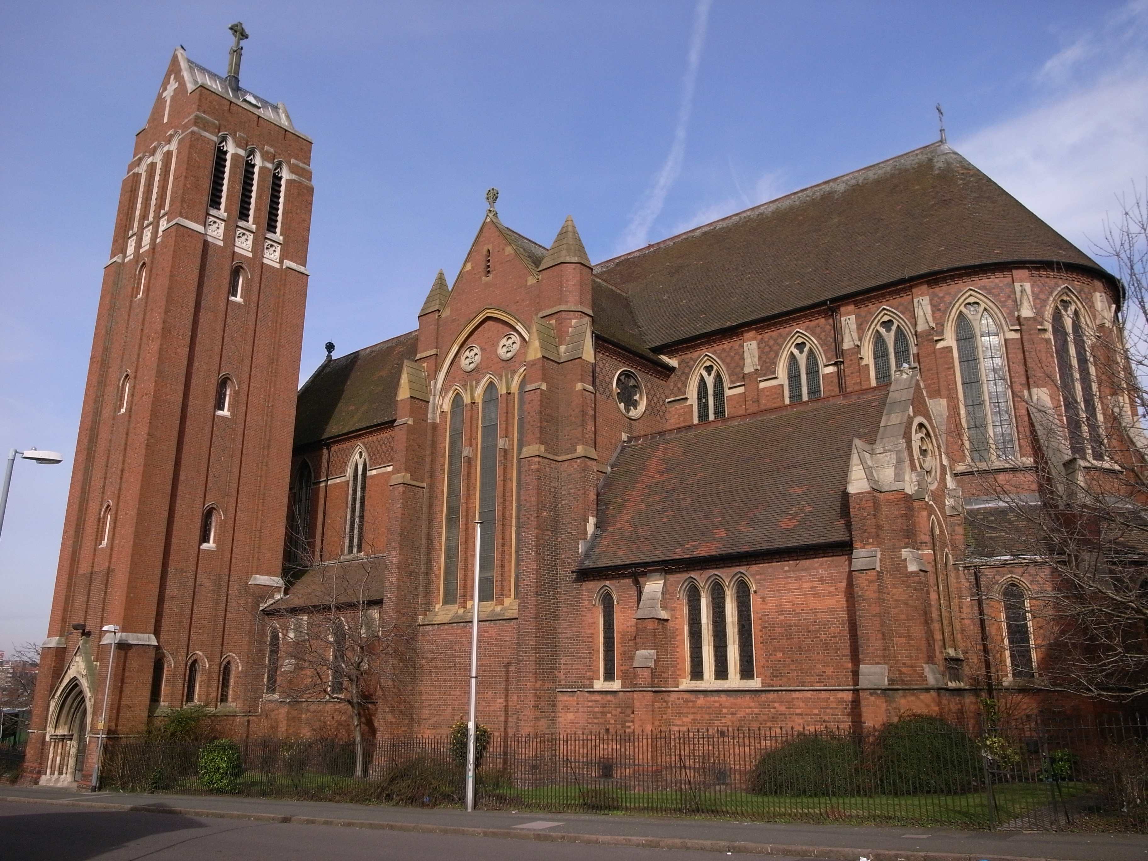 Parish church of St Alban and St Patrick, Highgate, Birmingham, England